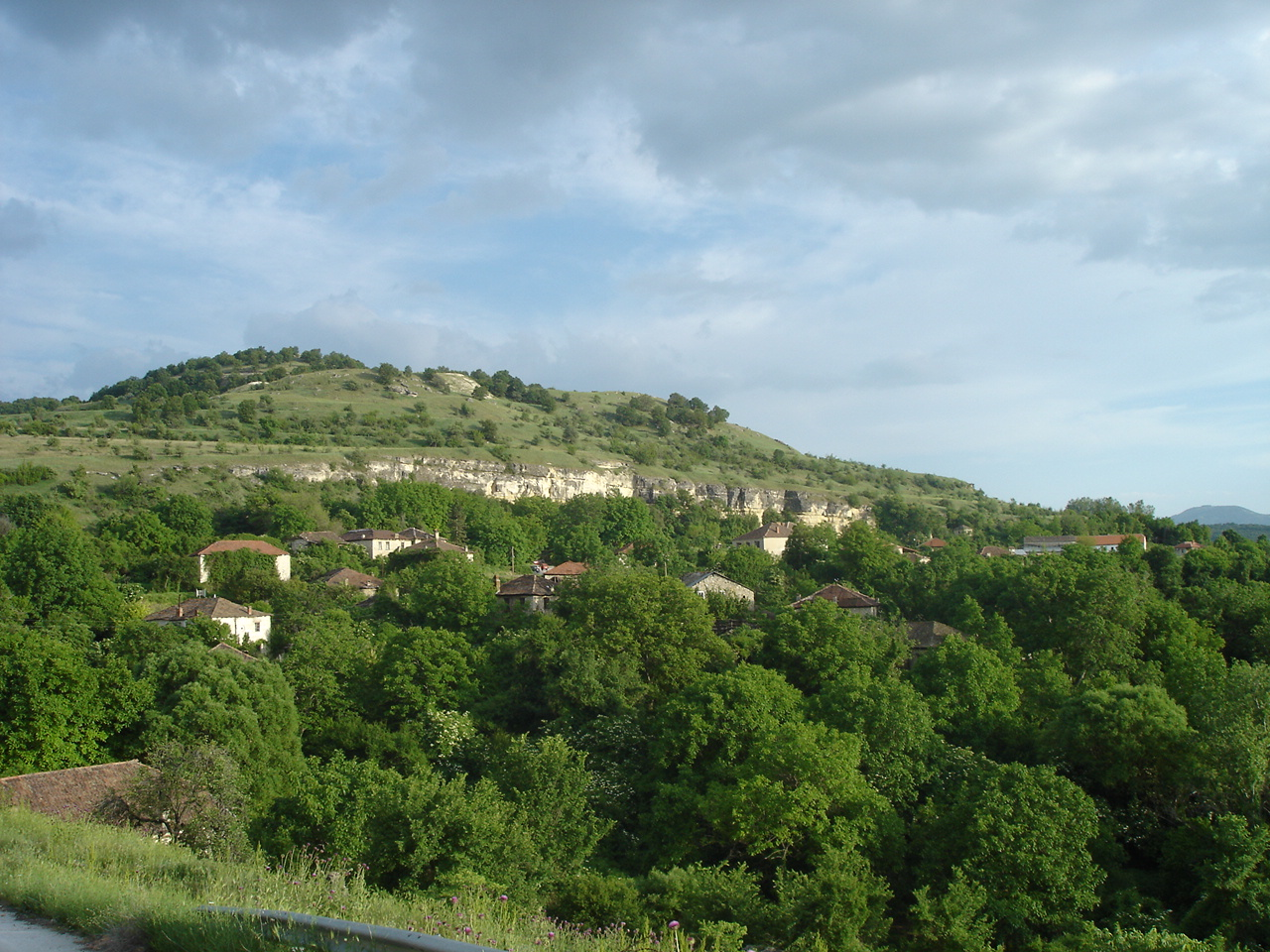 village of Manastir in Mariovo region, Macedonia